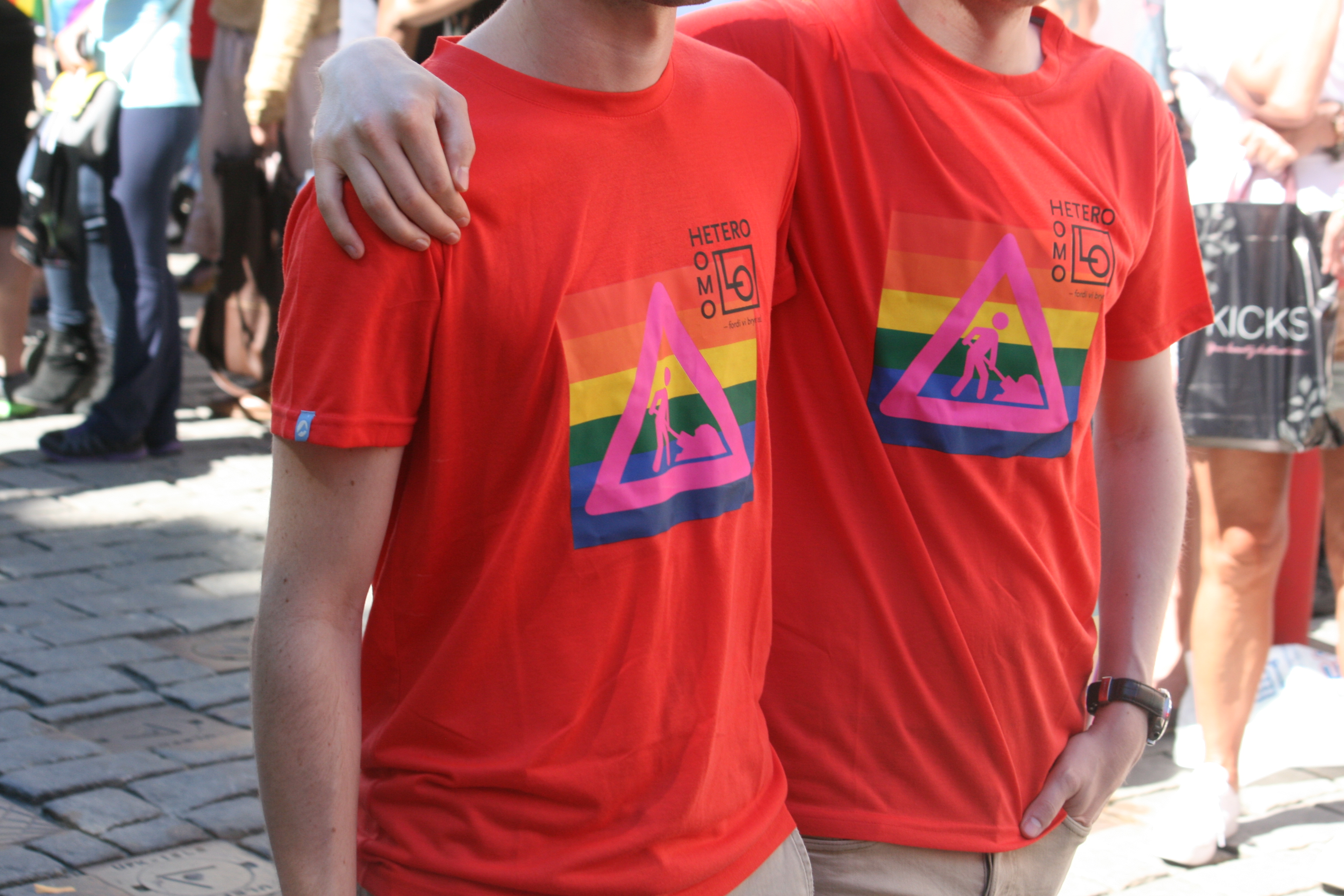 Fra Oslo Pride-paraden 2015 Landsorganisasjonen i Norge (LO)